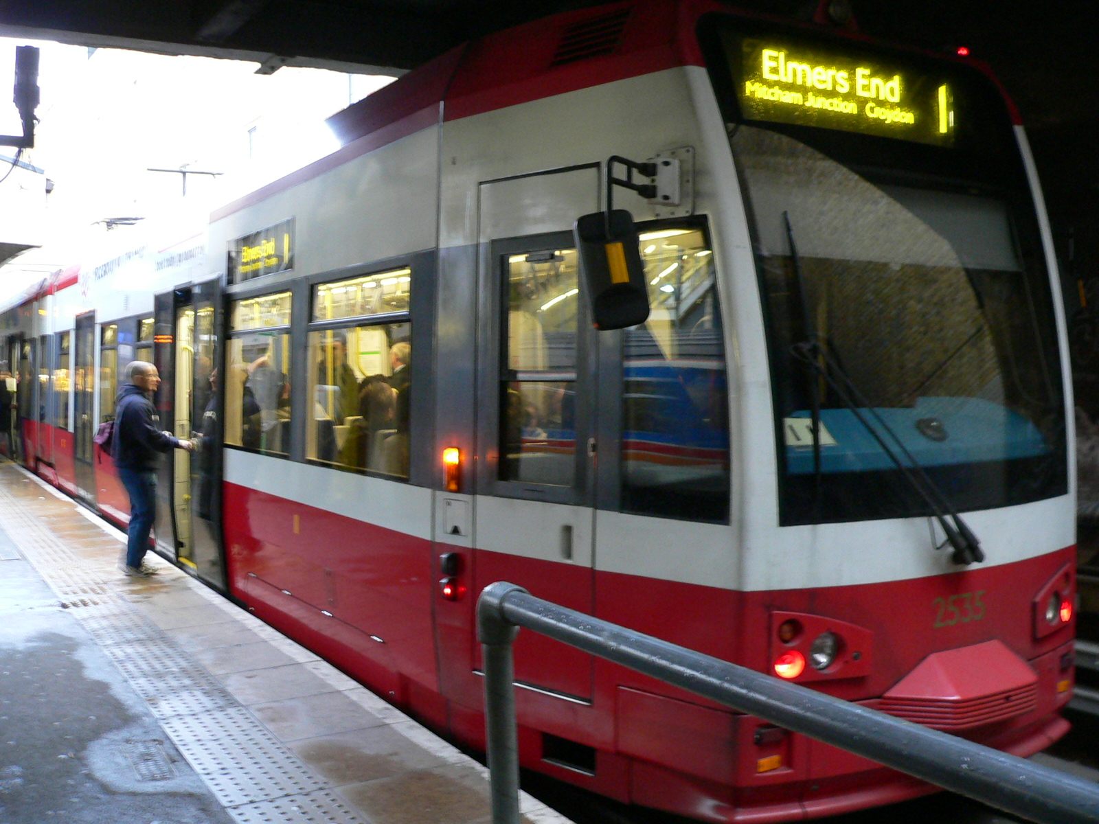 Tramlink tram 2535 at Wimbledon station on 24 October 2005 - the western terminus of Line 1, and the only interchange with London Underground